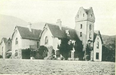 Photo of the House & gardens